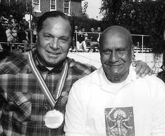 Bill Pearl and Sri Chinmoy.